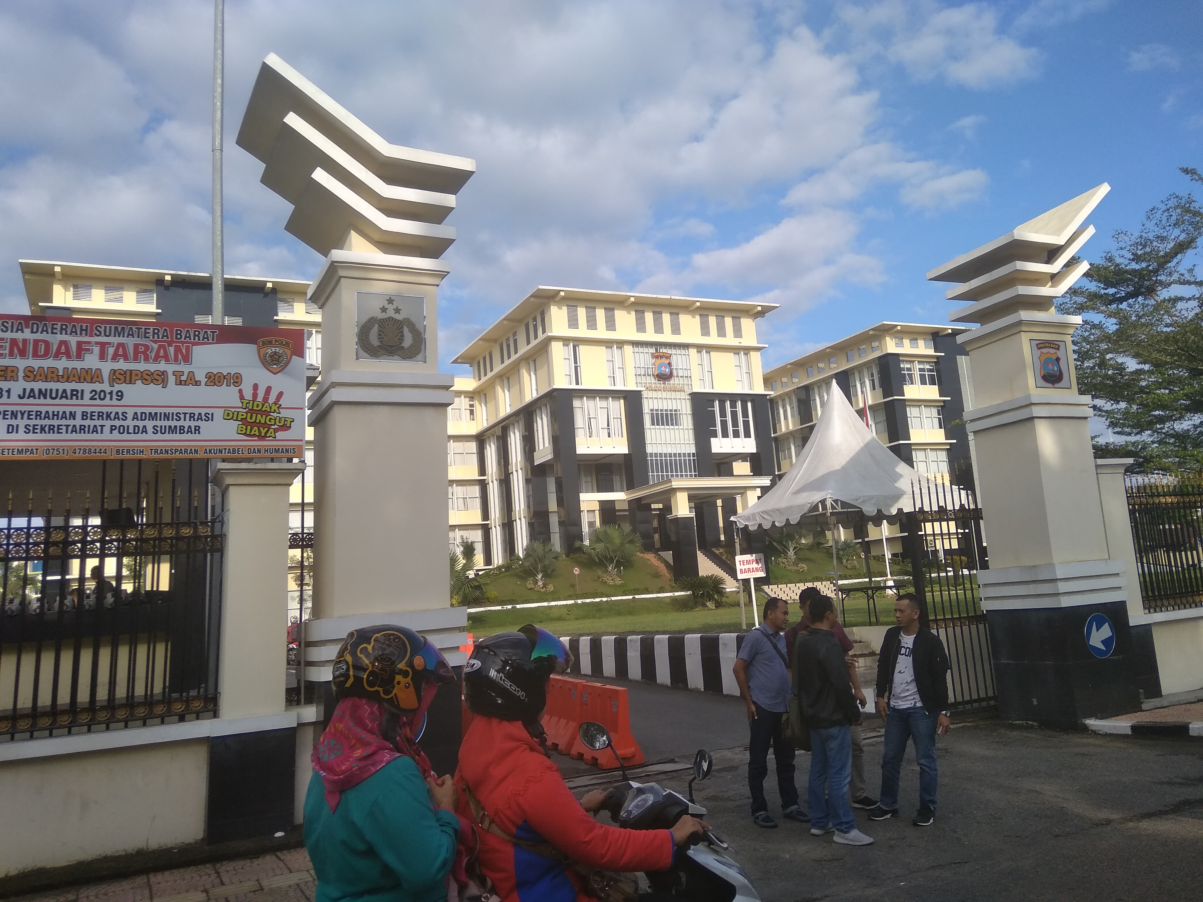 West Sumatra Regional Police Headquarters.